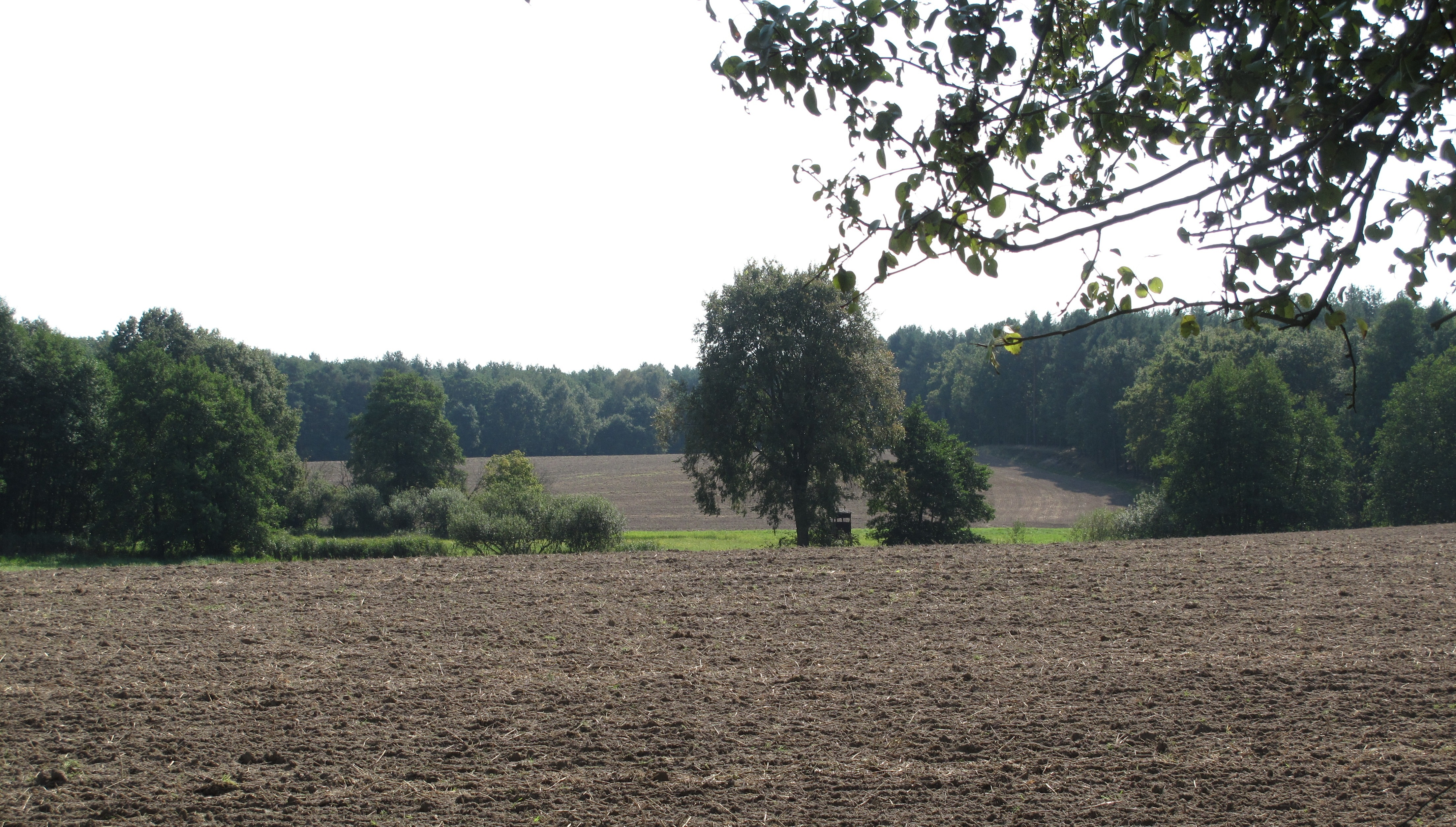 View from west to east over the valley of the Blabbergraben in the north of the Drobschsee (lake) in the District Oder-Spree, Brandenburg, Germany. This part of the Blabbergraben is situated in the Dahme-Heideseen Nature Park and in the Naturschutzgebiet (protected area)/Natura 2000-area Naturschutzgebiet Schwenower Forst.